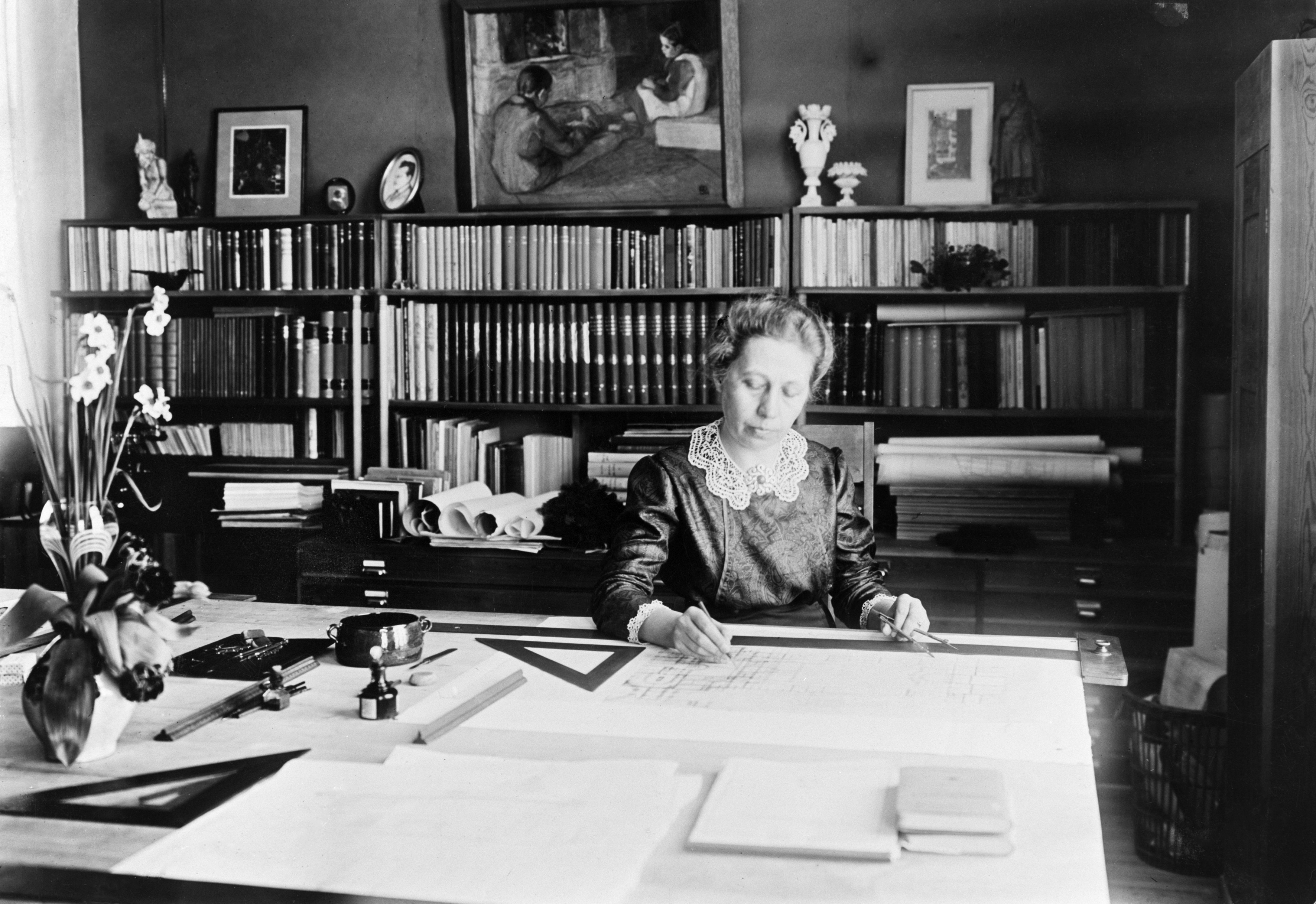 Photograph of the Finnish architect Wivi Lönn (1872–1966).